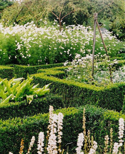 The white garden A close-up of the famous white garden.